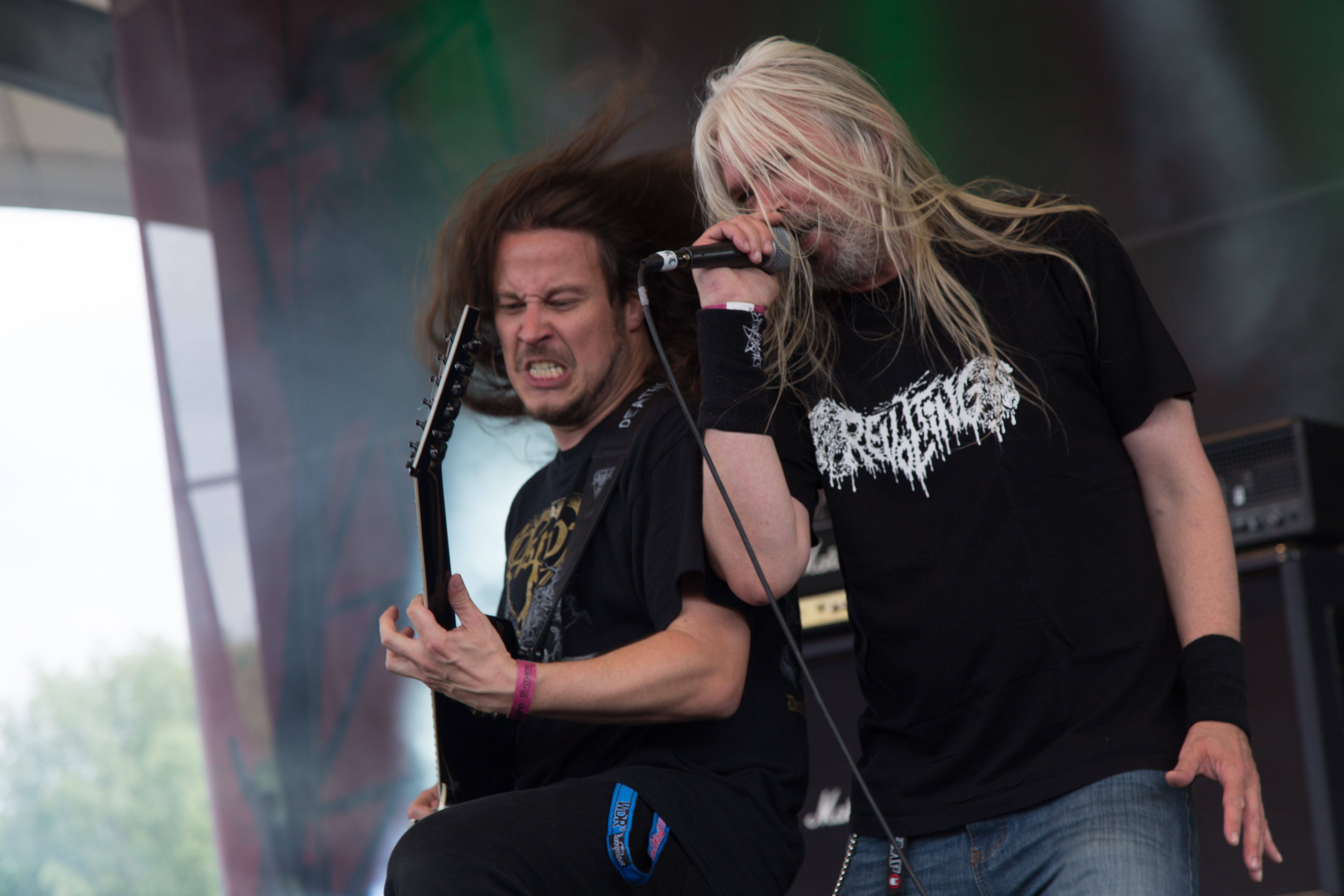 Asphyx performing live at Rock Hard Festival 2017, Gelsenkirchen, Germany